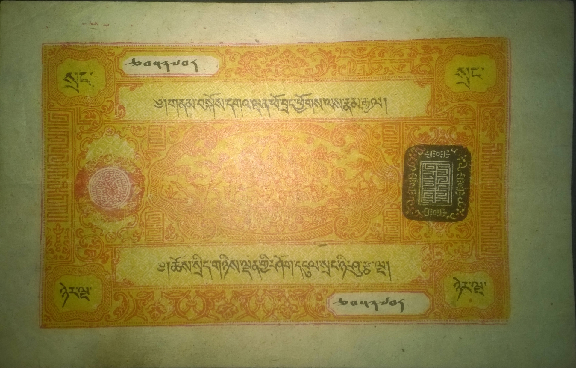 Tibetan Currency Use before 1959